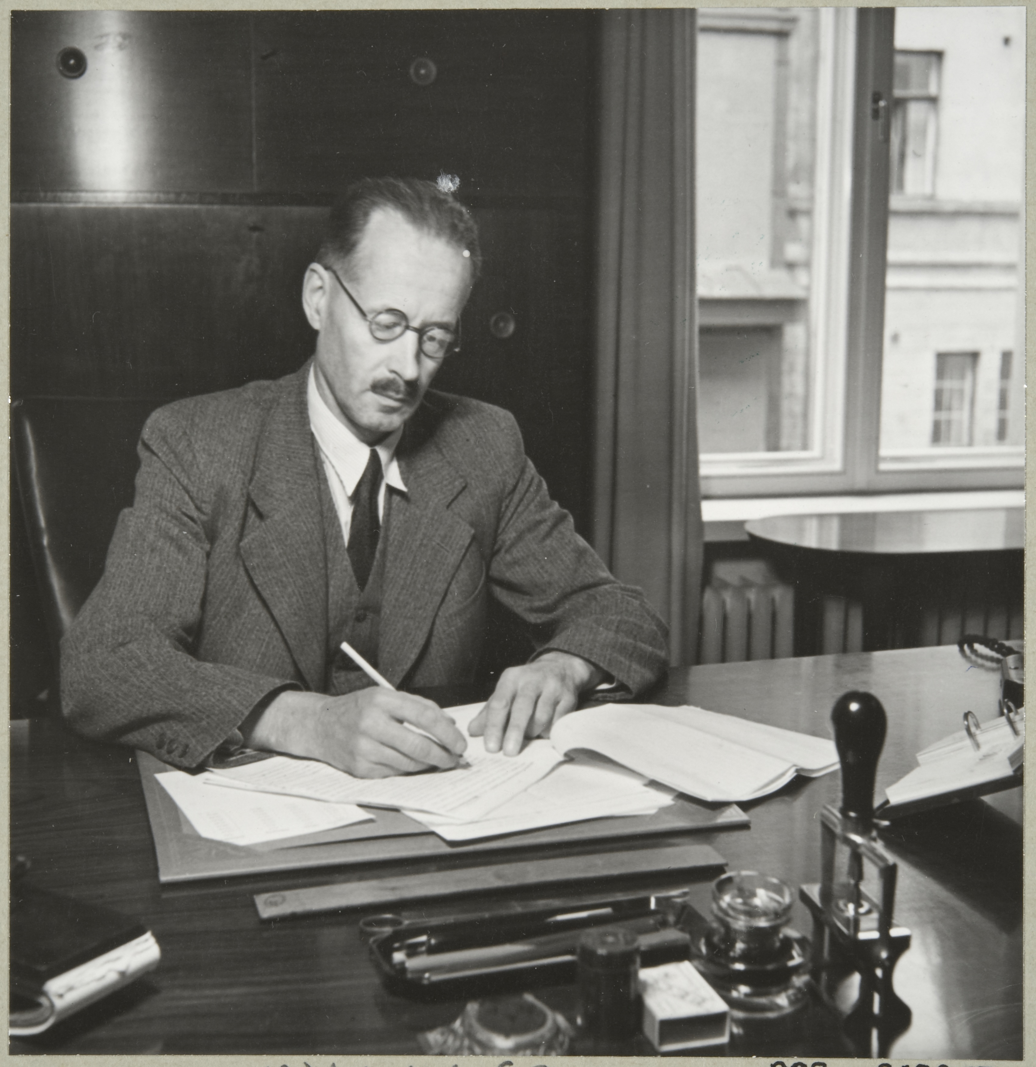 Photograph of the Finnish botanist and rector of Helsinki University Kaarlo Linkola (1888–1942) at his desk.